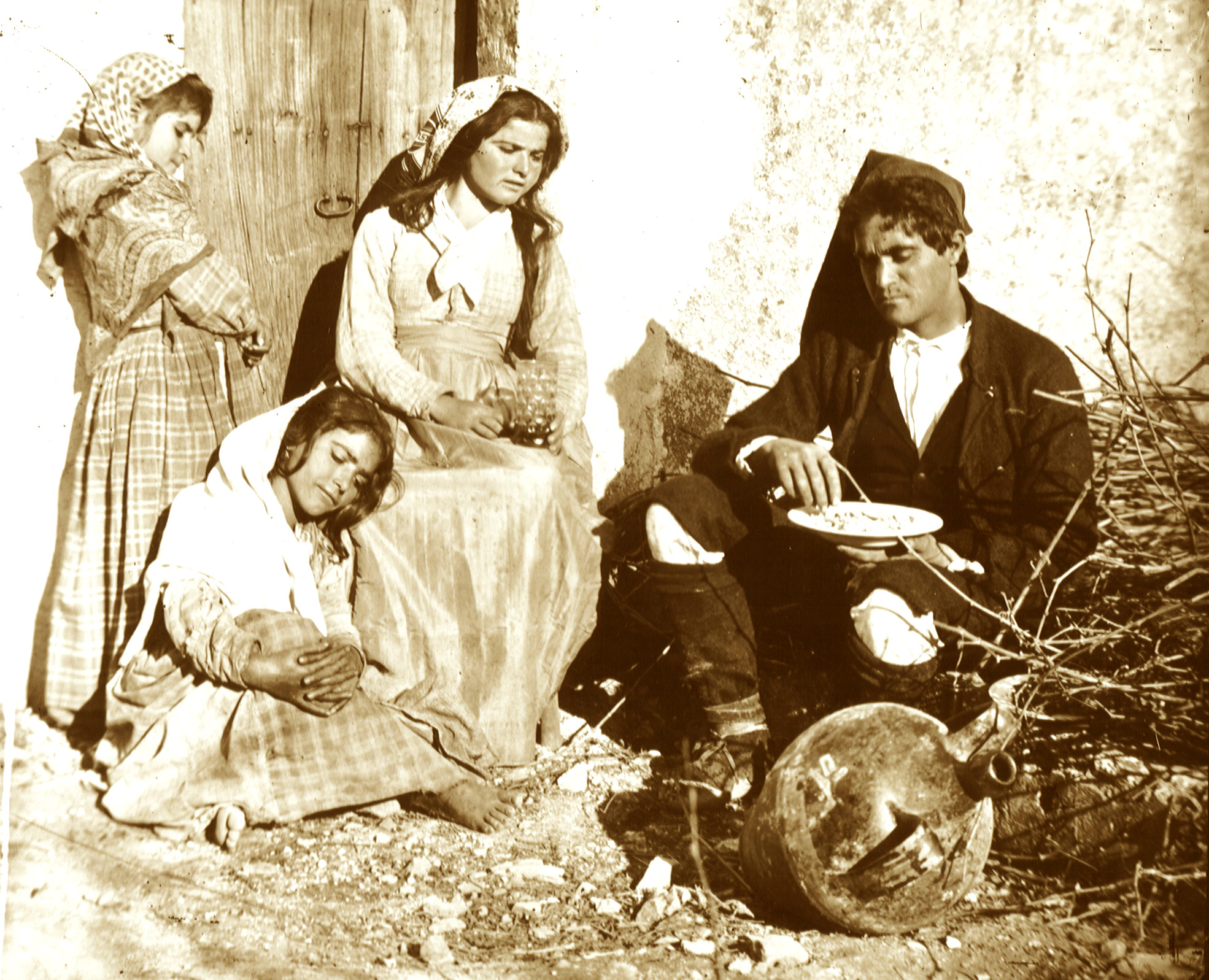 Wilhelm von Gloeden (1856-1931), "Before the door". Catalogue number: 19. It belongs to a set shot in the small town of Limina by Giuseppe Bruno, which entered Gloeden's catalogue, likely after Bruno's death.